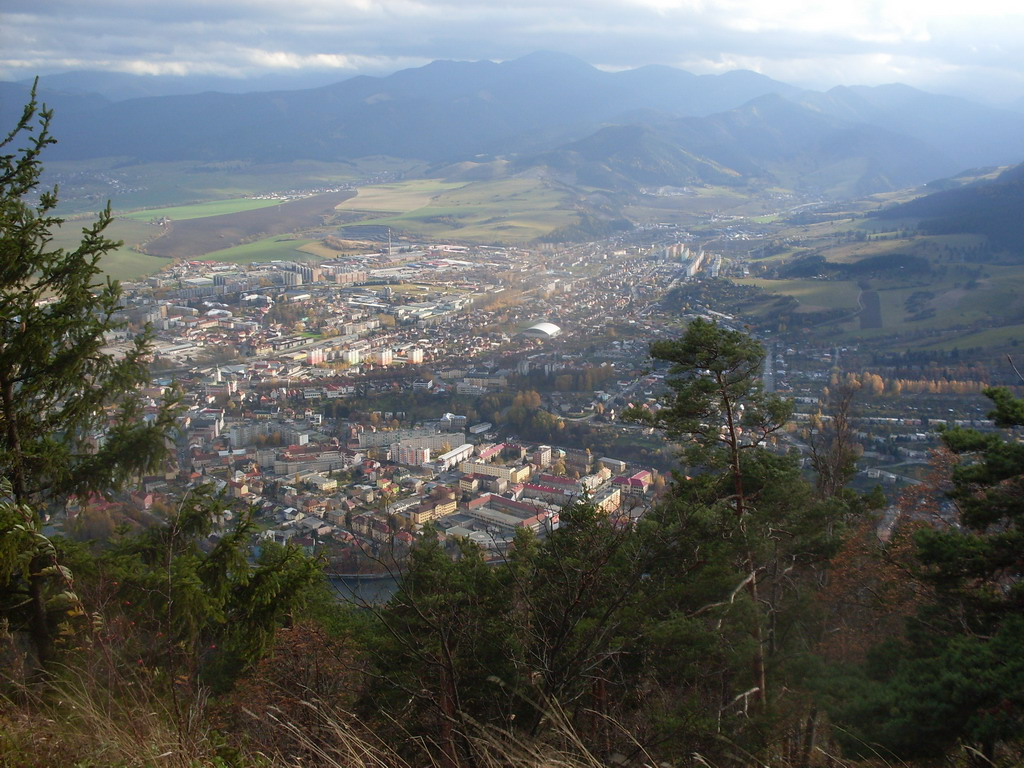 View at Ružomberok from Čebrať